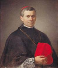 Tommaso Maria Martinelli, cardinal of the Roman Catholic Church